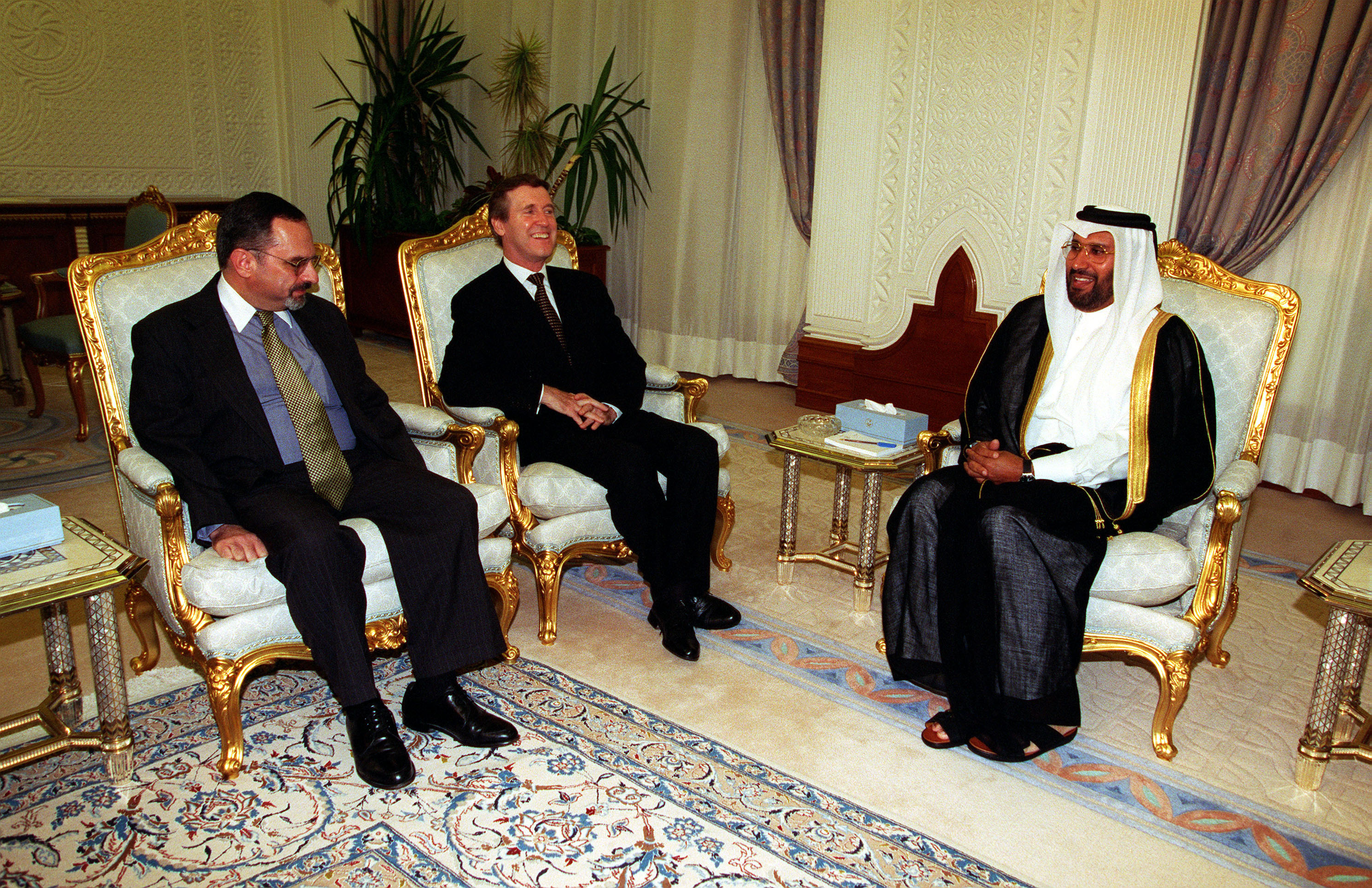 U.S. Ambassador to Qatar Patrick N. Theros (left) accompanies Secretary of Defense William S. Cohen (center) during a visit with the Minister of Foreign Affairs His Excellency Sheikh Hamad bin Jasim Al-Thani (right) at the Emiri Diwan, Doha, on Oct. 10, 1998. Cohen is in the Persian Gulf region to visit with U.S. troops and heads of state in the Gulf countries.